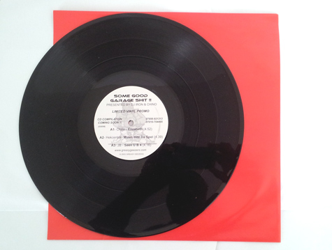 photo of vinyl and cover.- I-innovate Communications